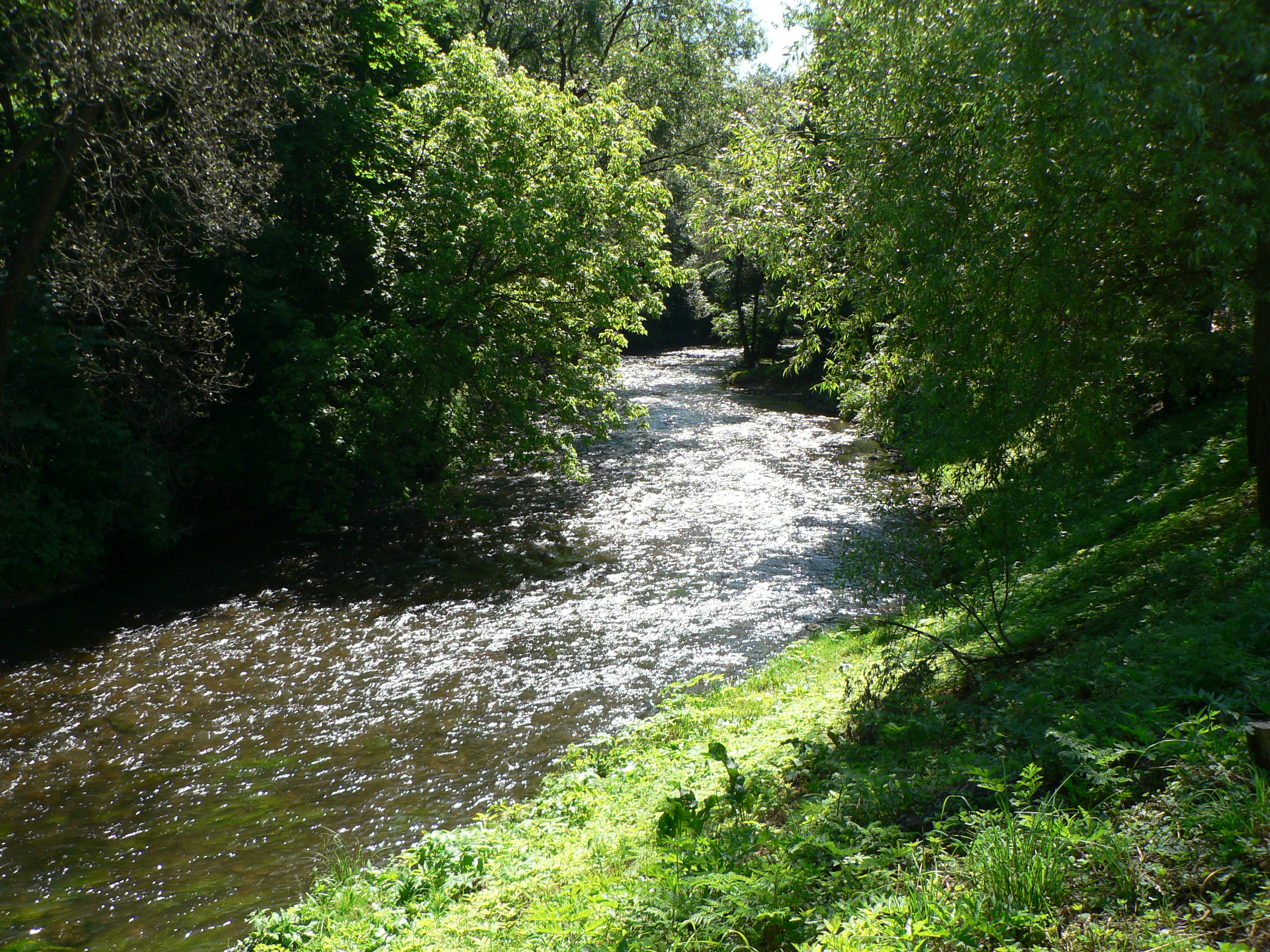 Vilnia river in Vilnius, Lithuania